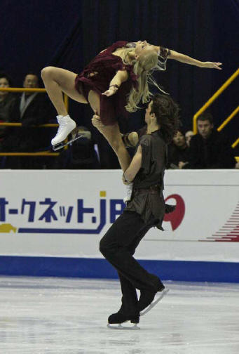 Oksana DOMNINA and Maxim SHABALIN. Grand Prix Final 2008. FD